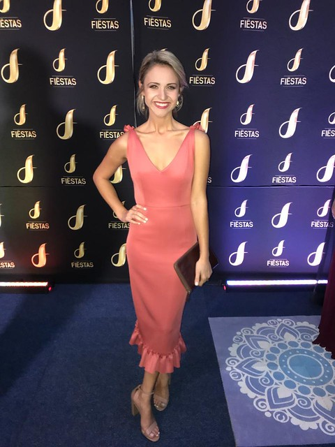 Simoné Nortmann posing at the Fiestas